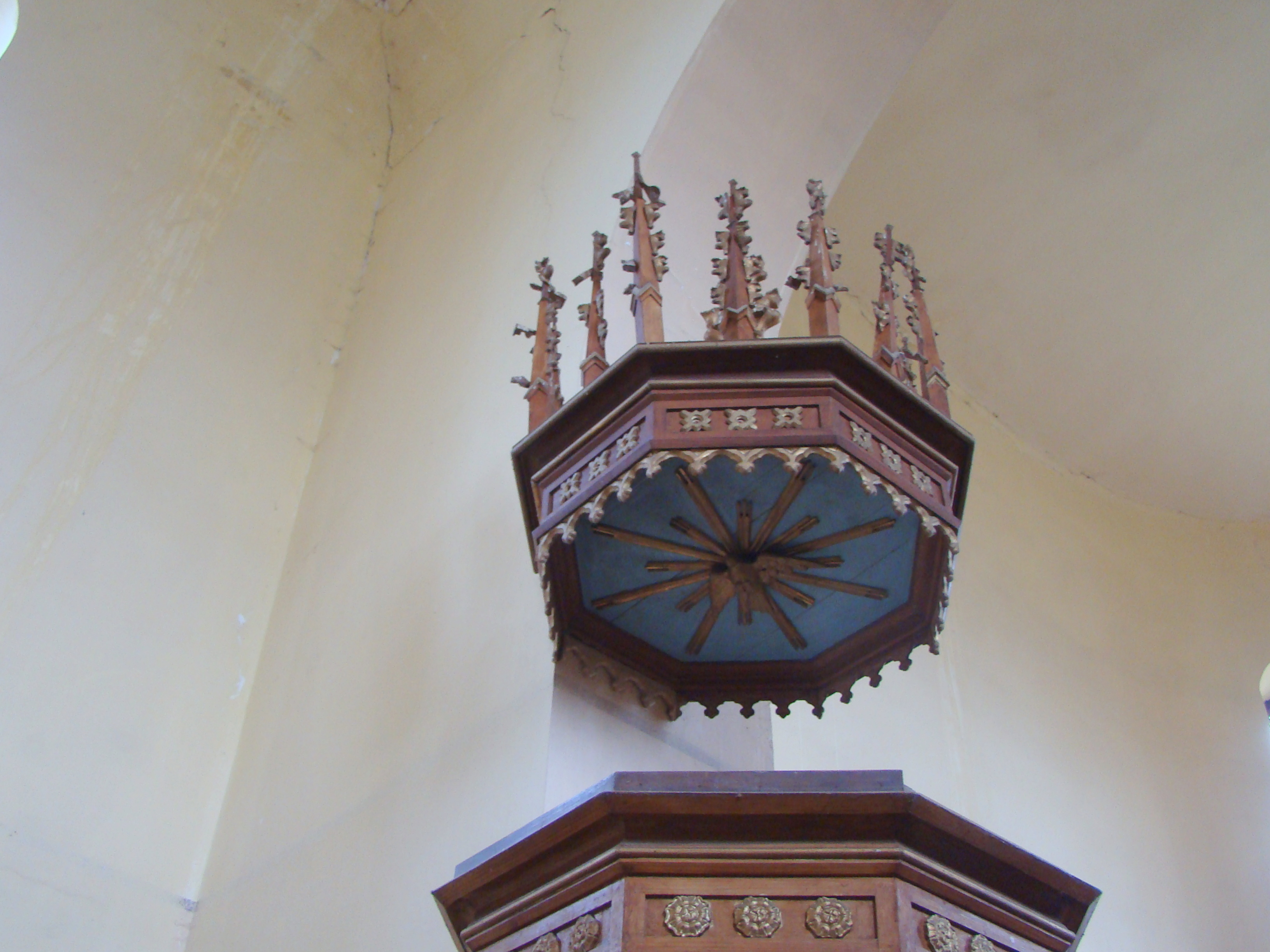 Lutheran church in Sântioana, Mureș County, Romania